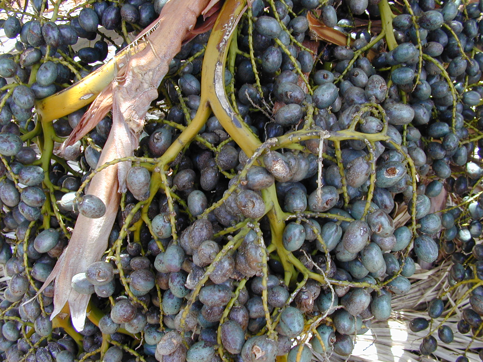 Livistona chinensis (fruits). Location: Maui, plantation Waikapu